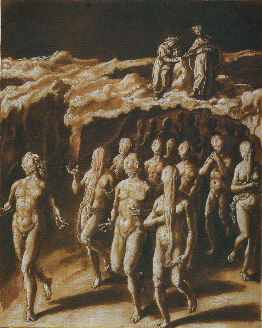 Illustration of Dante's Inferno, Canto 20